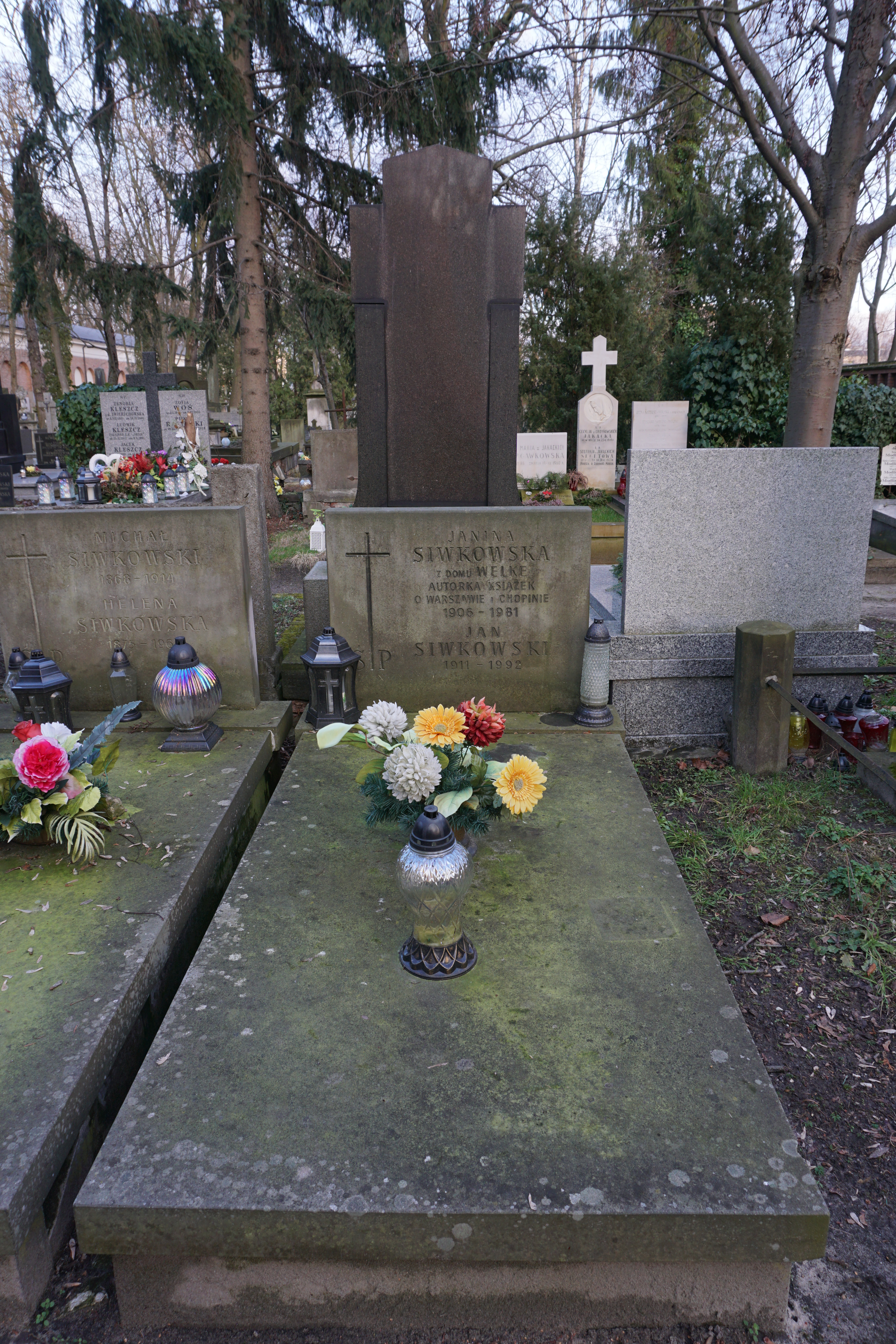 The grave of Janina Siwkowska at the Powązki Cemetery (section 170, row 6, grave 21)